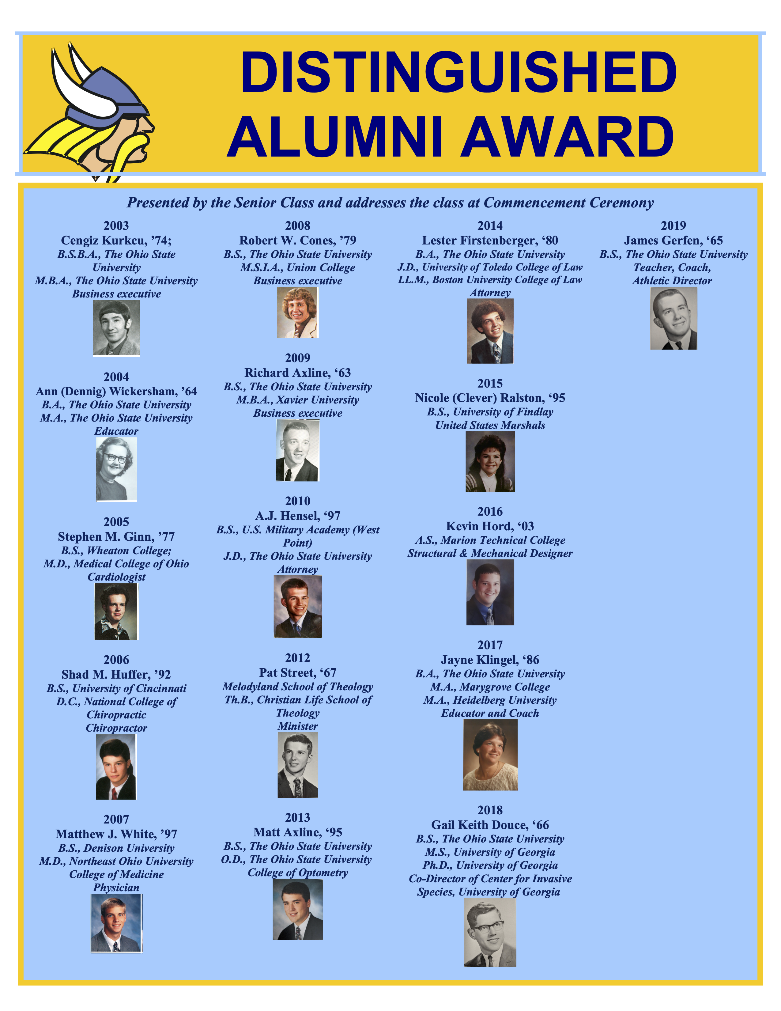 These distinguished alumni are graduates of River Valley High School and have been presented by the graduating class and asked to address the class at their Commencement Ceremony.